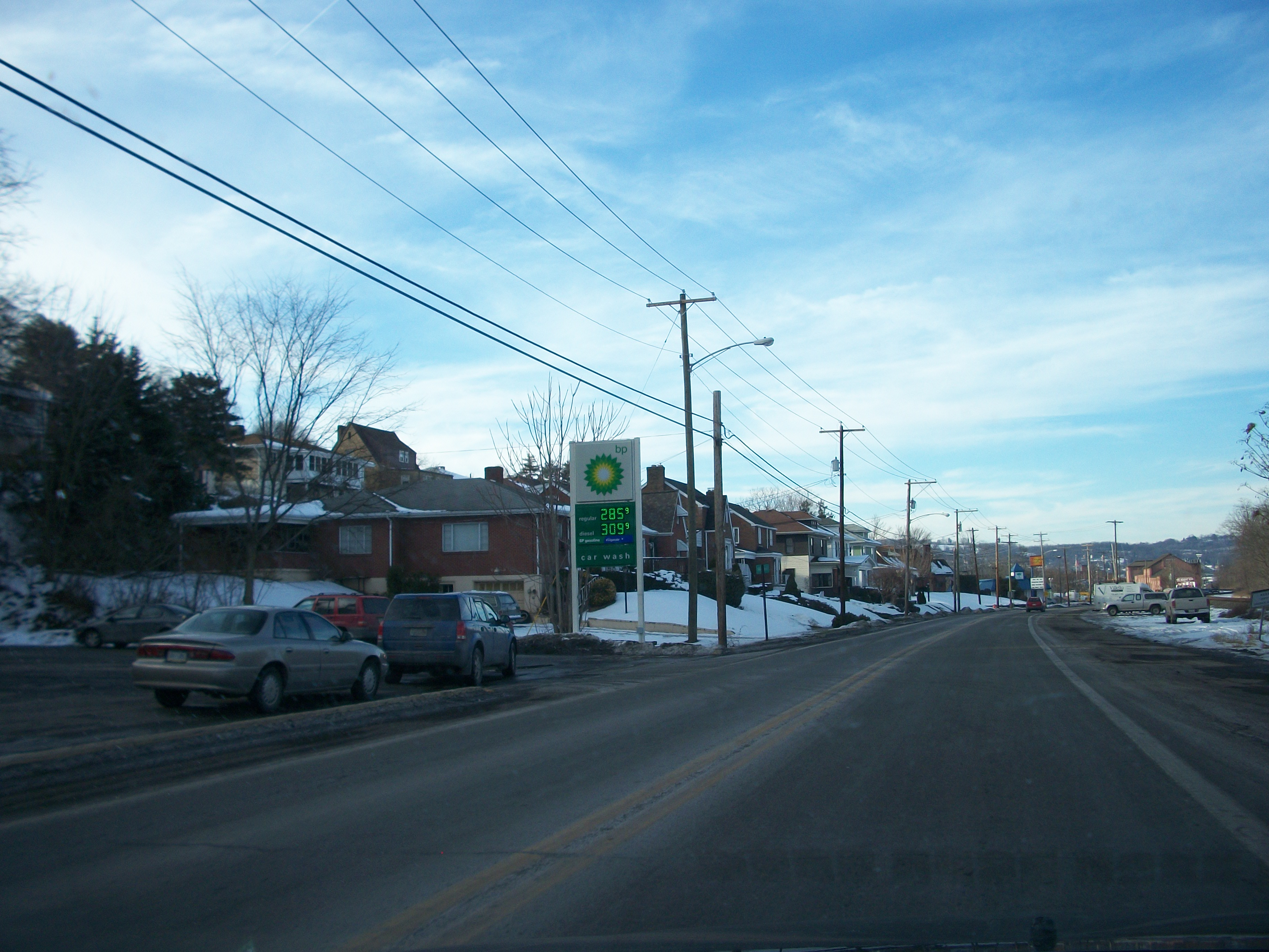 Gas station and suburban-style housing on Route 88 in Speers., Speers, Pennsylvania